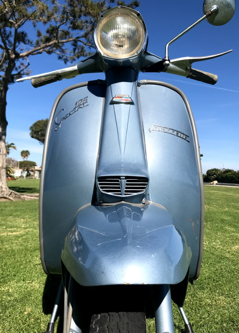 1966 Innocenti Lambretta Li 125 Special Metallic Blue